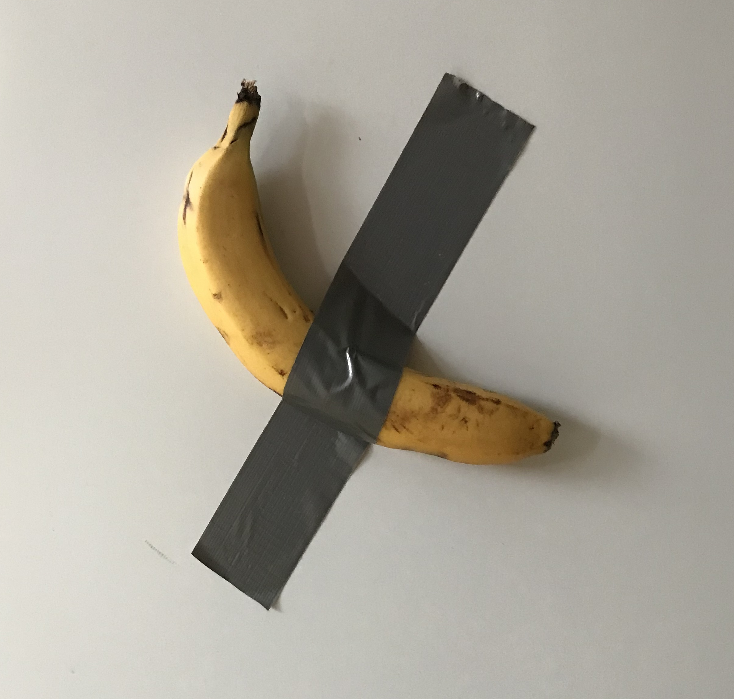 Banana duct taped to fridge as a reminder to eat less meat, inspired by Maurizio Cattelan